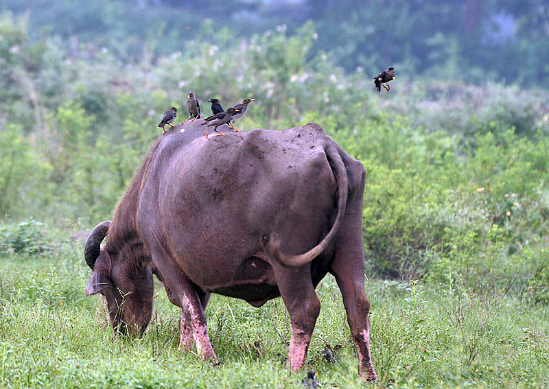 Jungle Myna Acridotheres fuscus in Kolkata, West Bengal, India.